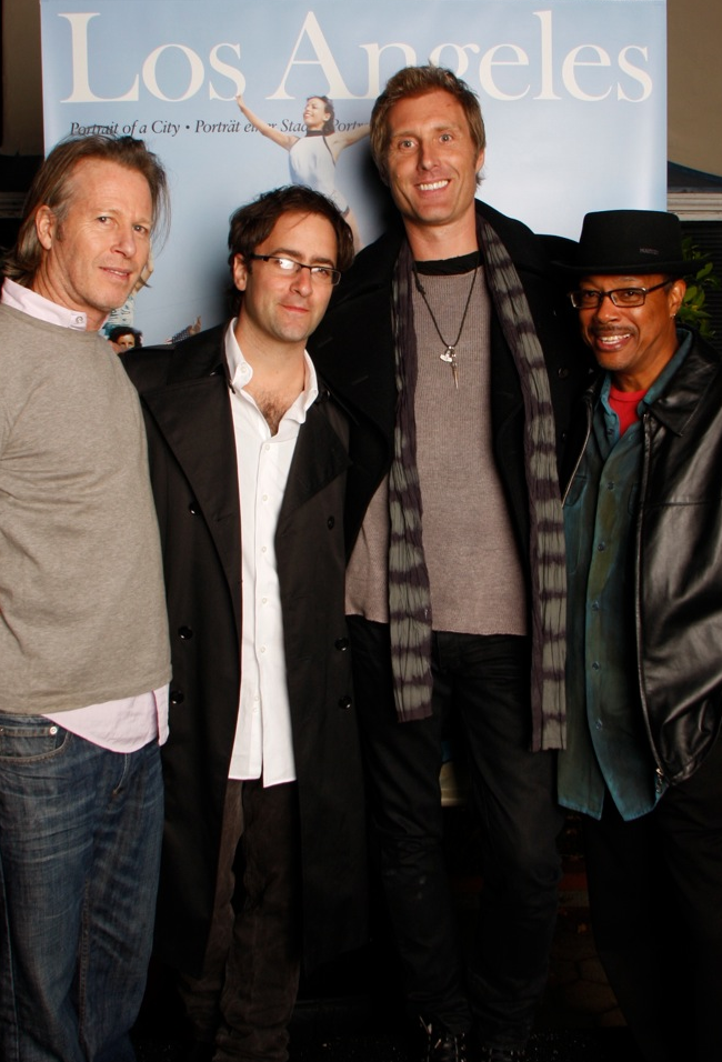 Ken Goldstein